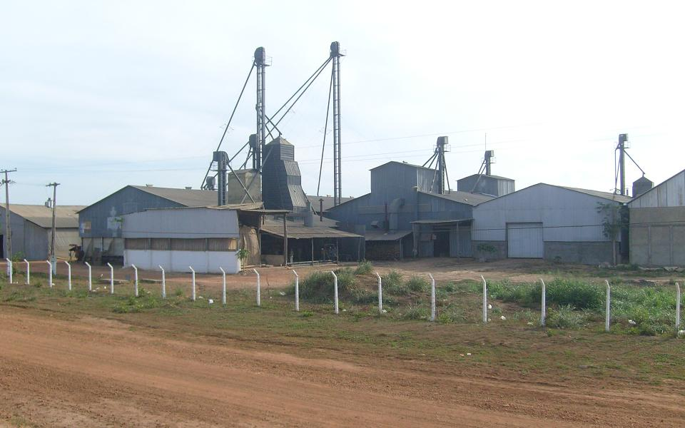 This is a place to keep rice and soy grains